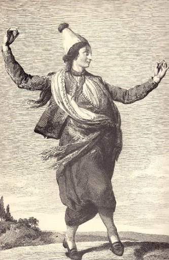 An engraving of a dancing köçek (a feminine male dancer) of the Ottoman Empire.